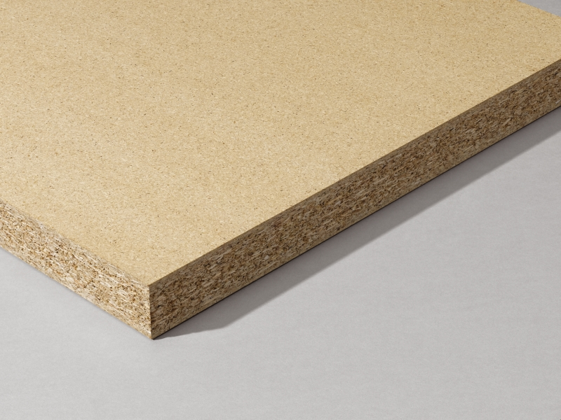 Fire Doors